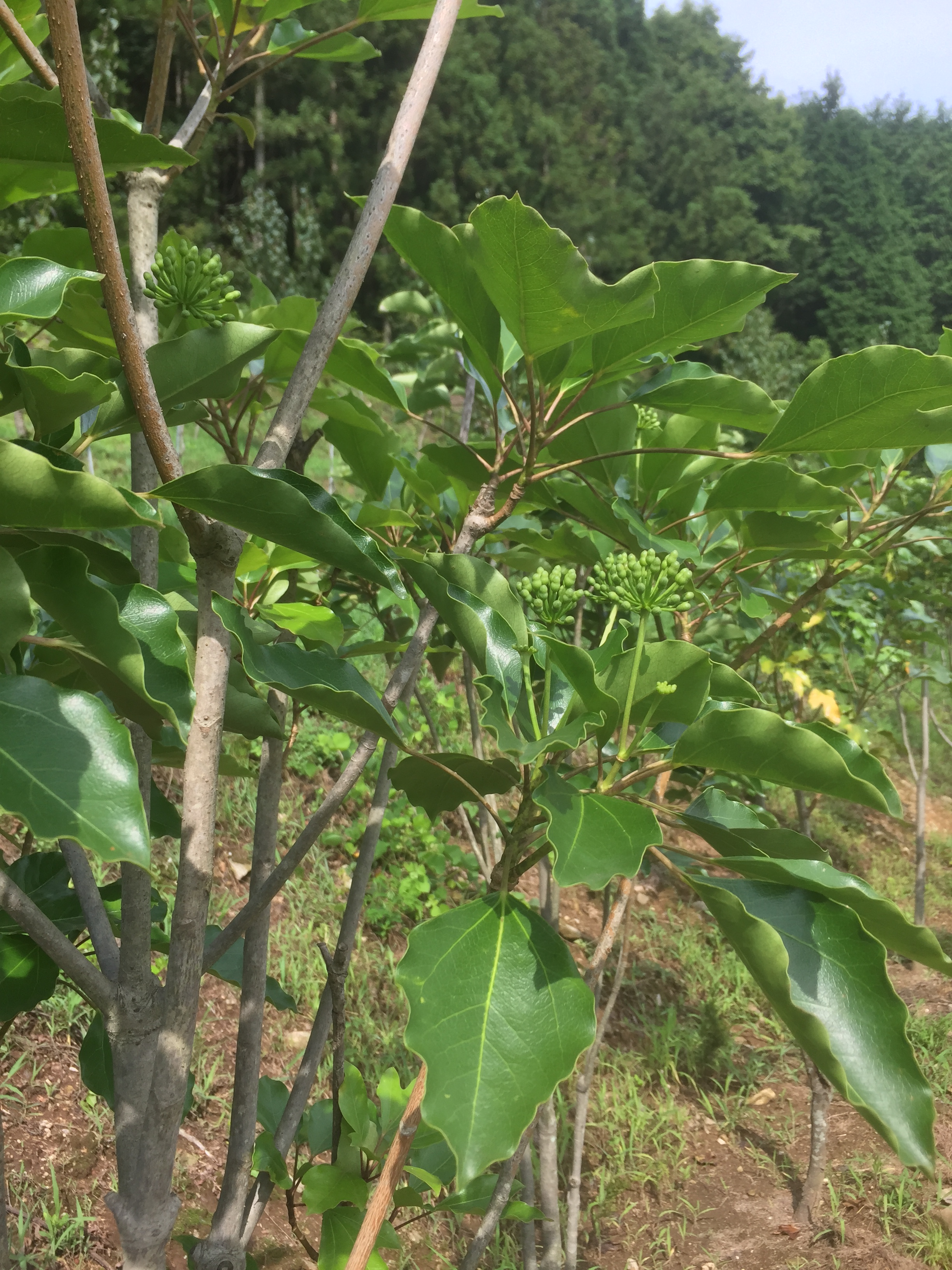 Dendropanax morbiferus Pyeongsa-ri, Nagna-myeon, Suncheon in South Korea